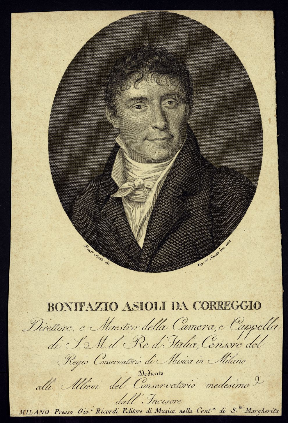 Portrait of Bonifazio Asioli, composer (1769-1832), 1812.